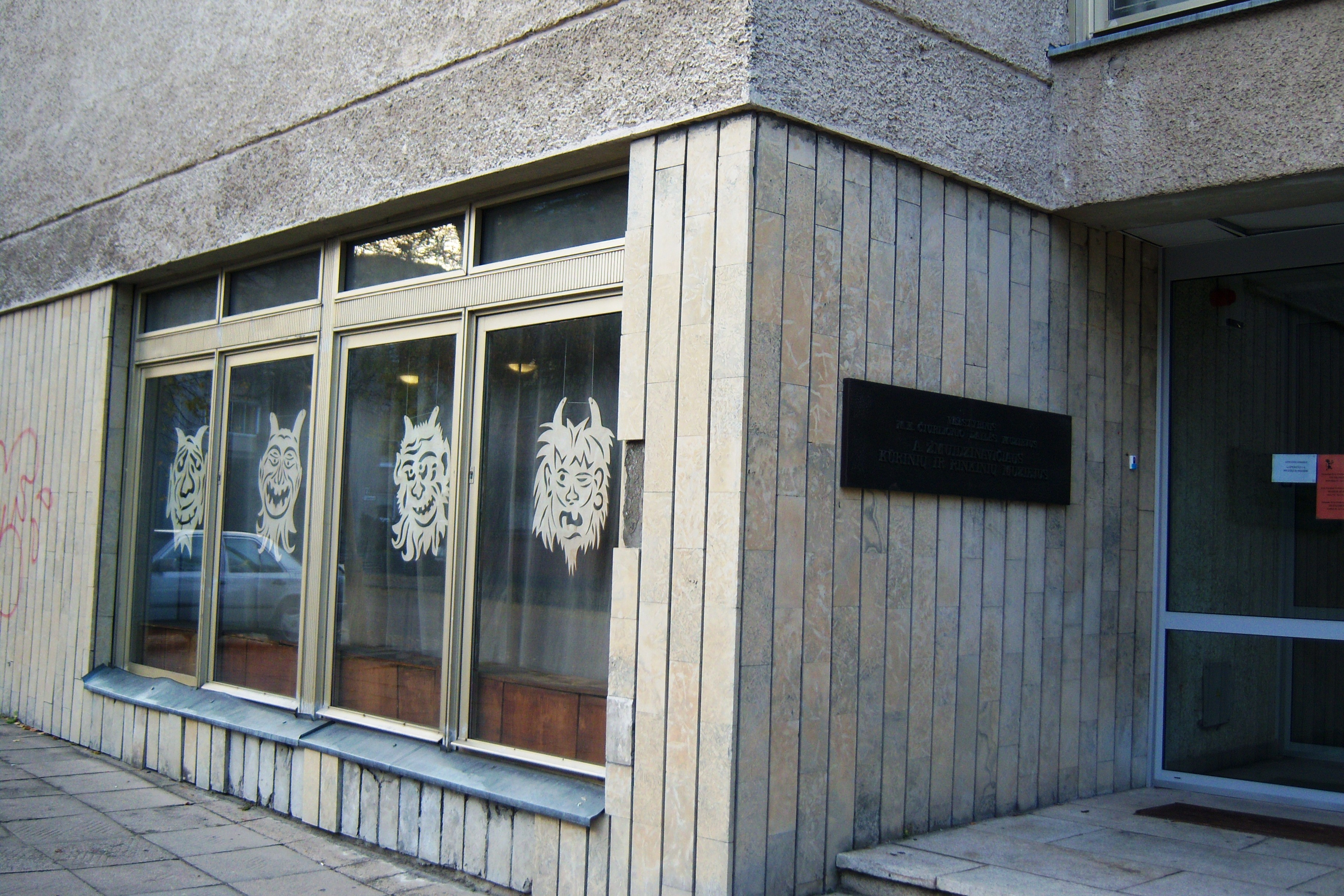 Museum of Devils, entrance, Kaunas, Lithuania.